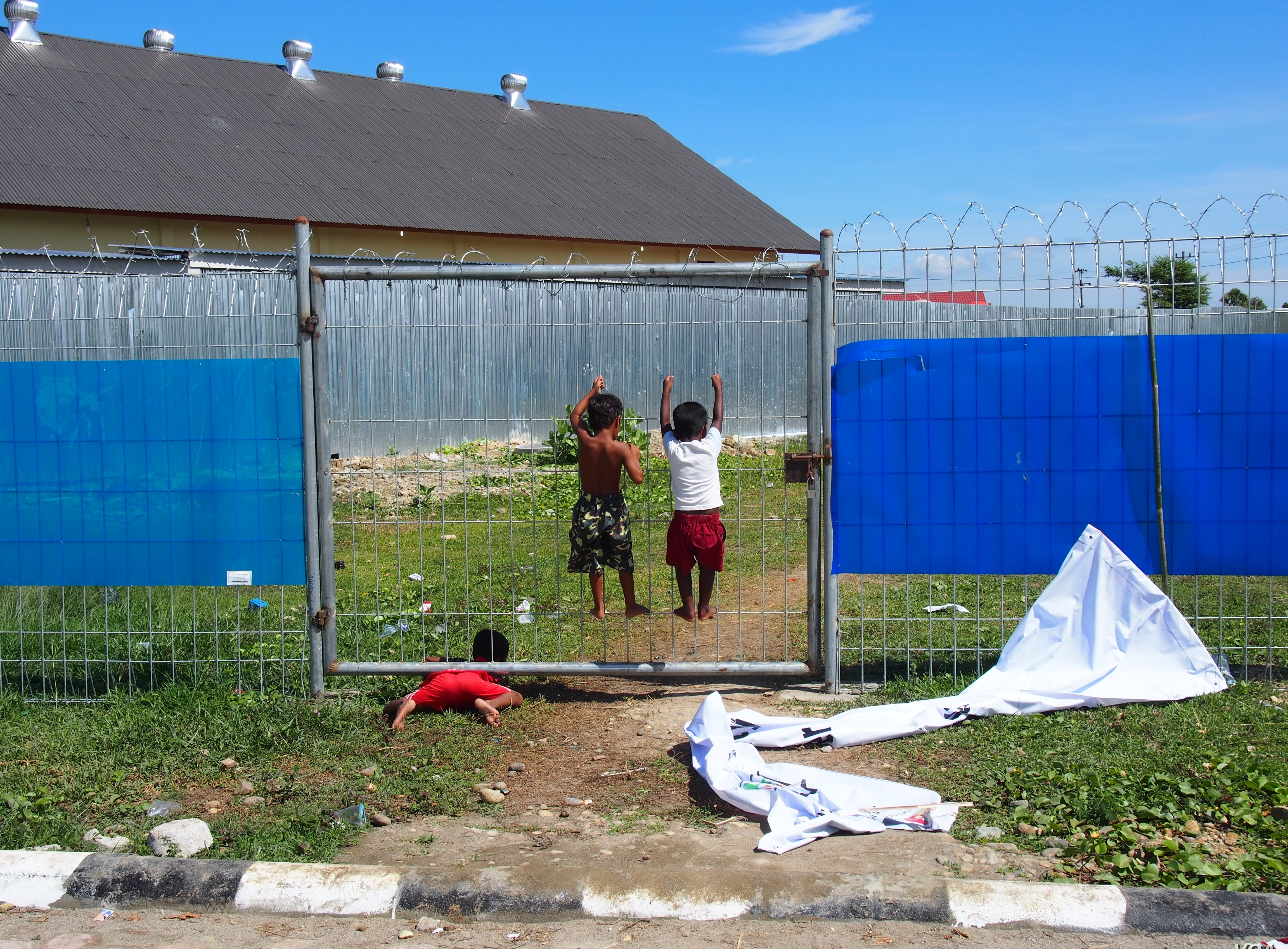 Rohingya child in Aceh, 2015